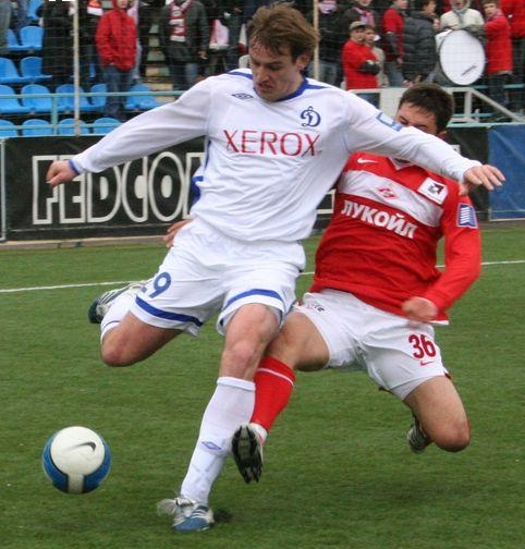 Dmitry Bulykin as a player of FC Dynamo Moscow Reserves